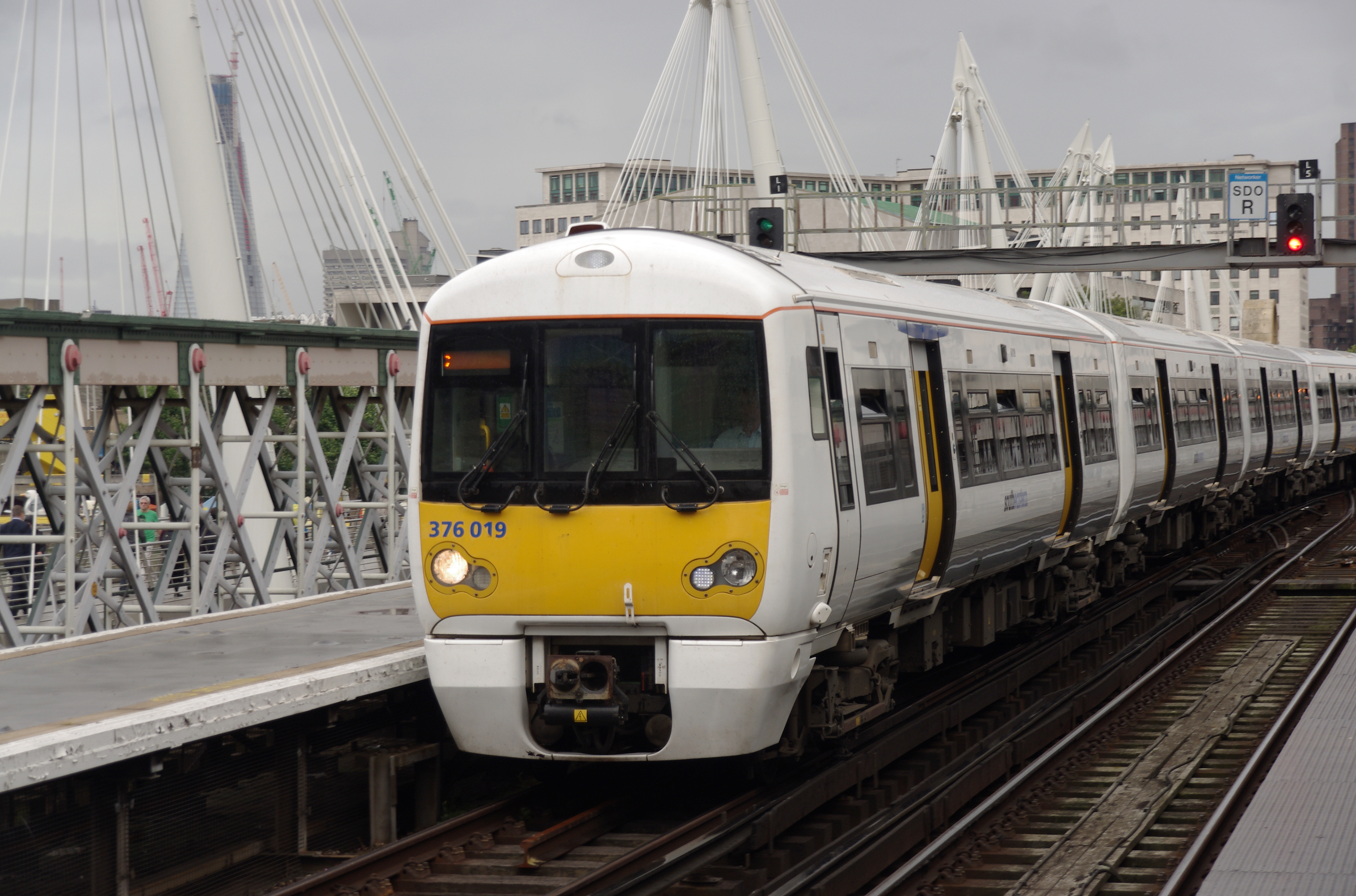 Southeastern Electrostar EMU 376019 leads a service into Charing Cross railway station.